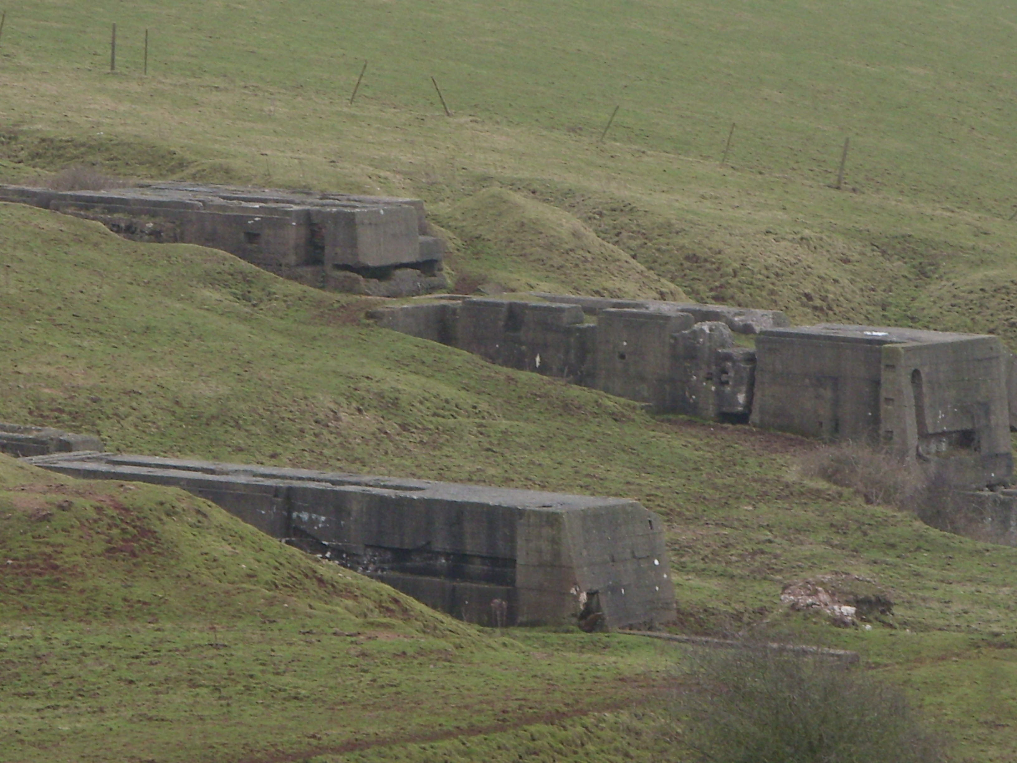 Yarlside is a hill above Barrow in Furness, Cumbria, England. Engine beds of Hathorn Davey horizontal compound differential engines at Yarlside No 10 and 11. One of these engines was removed to Violet pit, Roanhead 54°22′53″N 2°29′10″W / 54.3814°N 2.4861°W